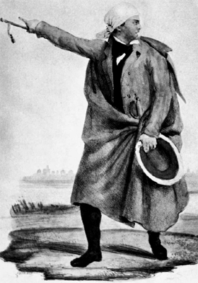 José María Teclo Morelos y Pavón (1765–1815), Mexican Roman Catholic priest and revolutionary rebel leader who led the Mexican War of Independence movement. From Costumes civils, militaires et réligieux du Mexique